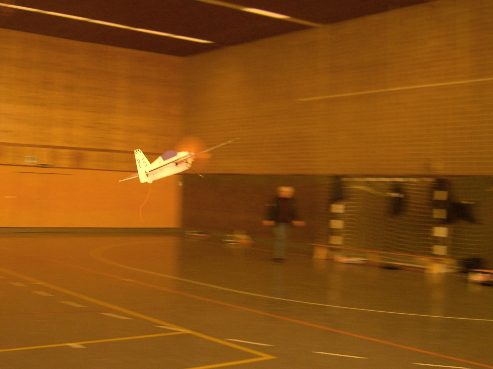 Description : Shockflyer indoor flying, 29. Jan. 2006 Source : Michael Date : 2006-01-29 Photograph : Michael